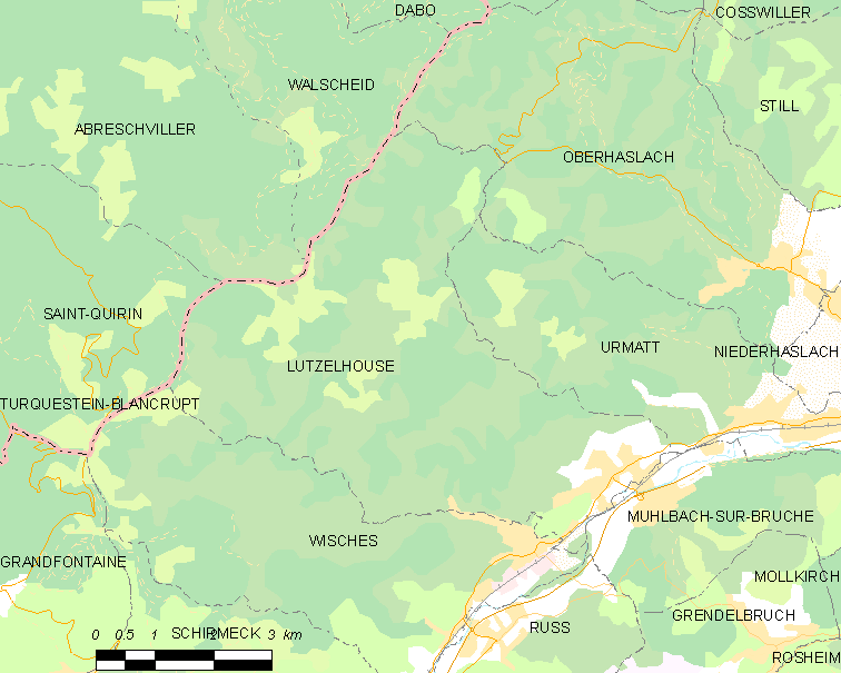 Map of French municipality